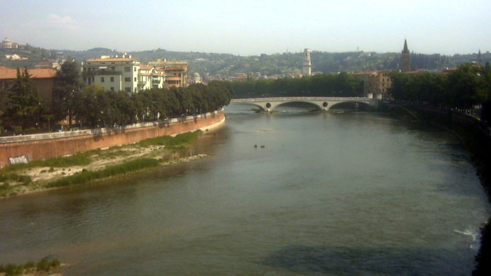 This photo shows the Etsch river in Verona (Italy). ceator:me (Thomas Richter) date:2006-04-25 license:public domain